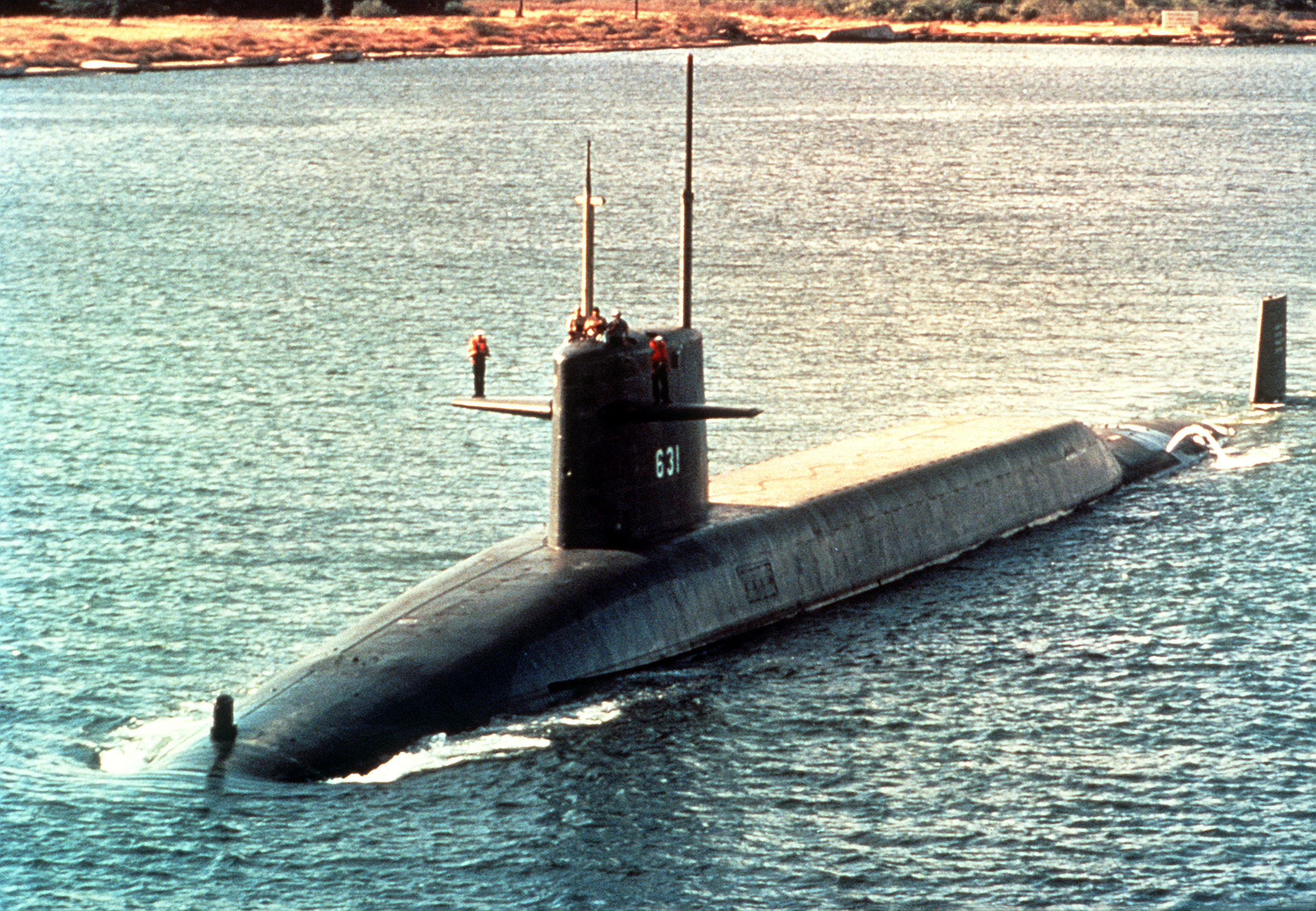 A port bow view of the U.S. Navy nuclear-powered strategic missile submarine USS Ulysses S. Grant (SSBN-631) entering port. Note: The original description gives the location as Naval Air Station Barbers Point, Hawaii (USA), on 1 February 1991. However, NAS Barbers Point had no port, it would probably then be Pearl Harbor. Also, Ulysses S. Grant operated in the Pacific Ocean from 1965 to 1969 she was then relocated to the Atlantic Ocean. The hull number visible also dates this photo more to the early service life of the submarine. Comment The date of picture is incorrect, as the Grant was operating on a patrol in the North Atlantic theater and returned to Holy Loch, Dunoon, Scotland on 18 March 1991, to be turned over to the Blue Crew for refit. I was on the Blue Crew. -Kevin Moakley, TM Div.—Preceding unsigned comment was added by 74.92.42.253 (talk) 00:44, 26 January 2010 (UTC)